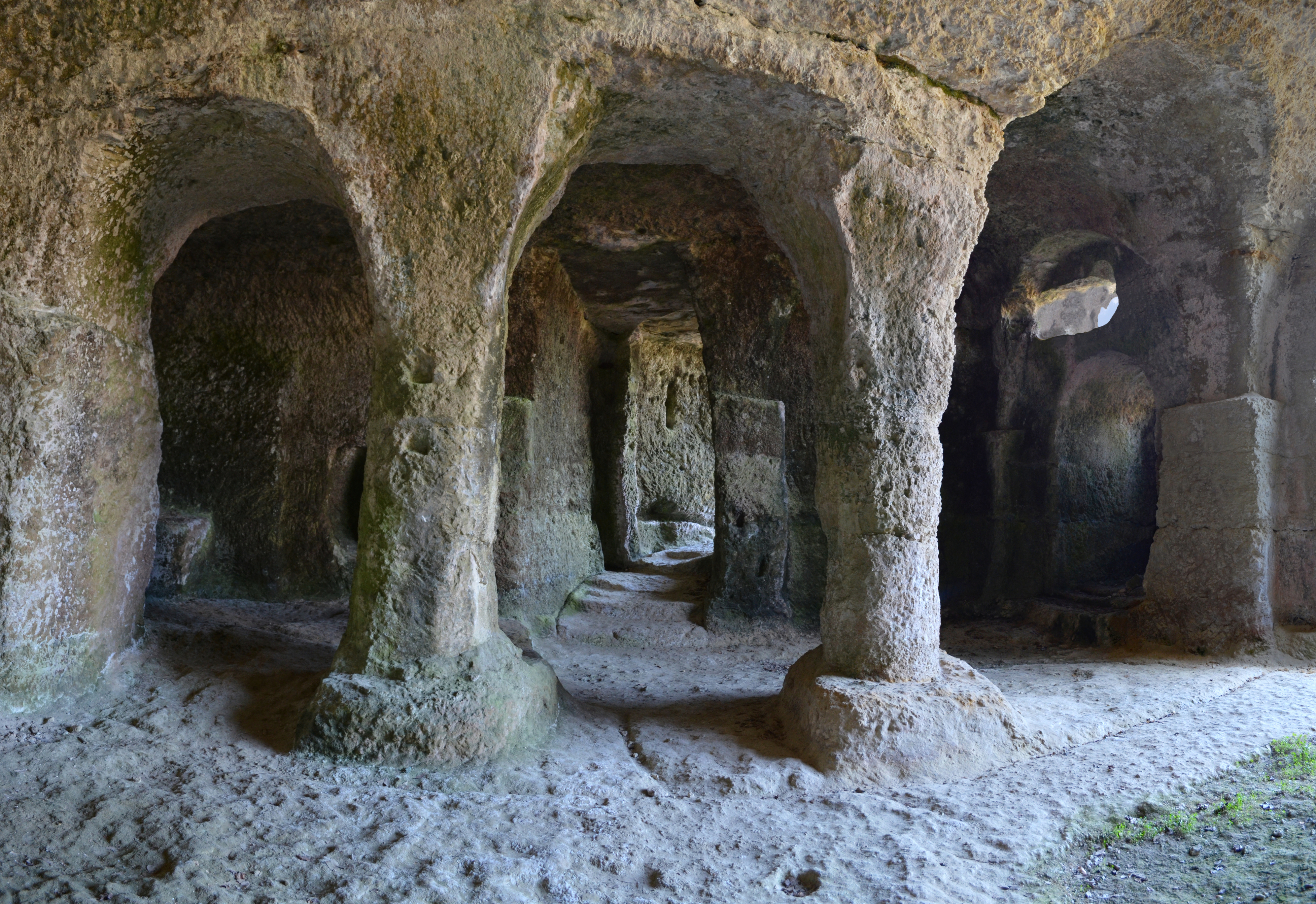 Troglodyte church (Chapelle Saint-Georges). Gurat, Charente, France. .